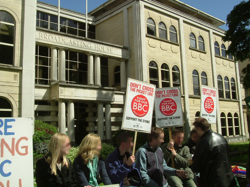 BBC Bristol Broadcasting House, Whiteladies Road, Bristol, at about 3:30pm. Wikinews:BBC drops programmes as third of staff join strike Wikinews:BBC prepared for news blackout as staff strike Wikinews:Unions ballot to "shut down the BBC"